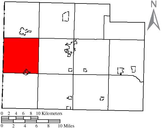 Made by the US Census and modified by myself